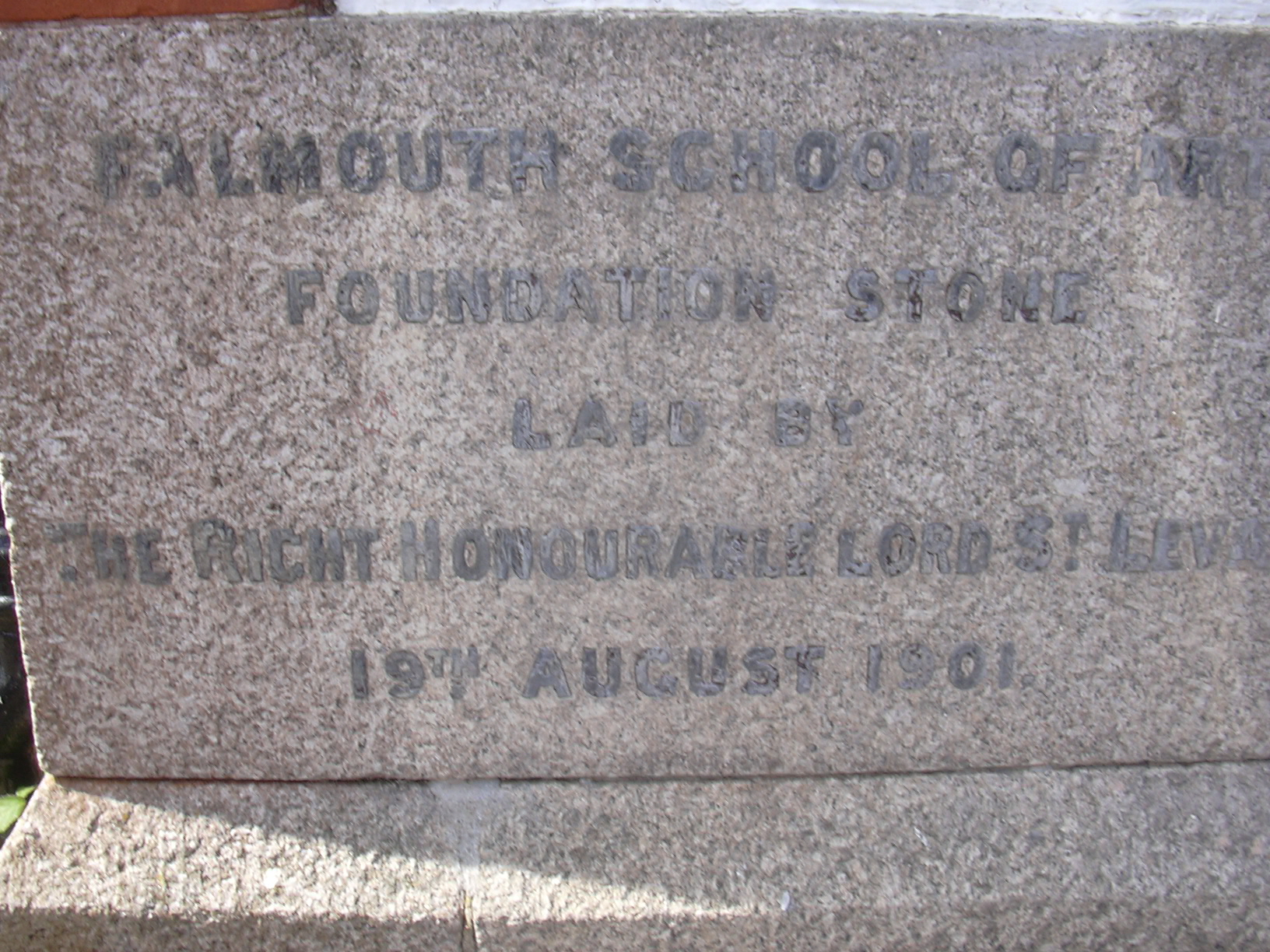 Falmouth School of Art Annexe, Arwenack Avenue. Foundation stone laid by Lord St. Levan, August 19, 1901. The college officially opened in August 1902.